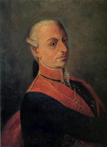 Portrait of Francesco d'Aquino, Prince of Caramanico (1738-1795)